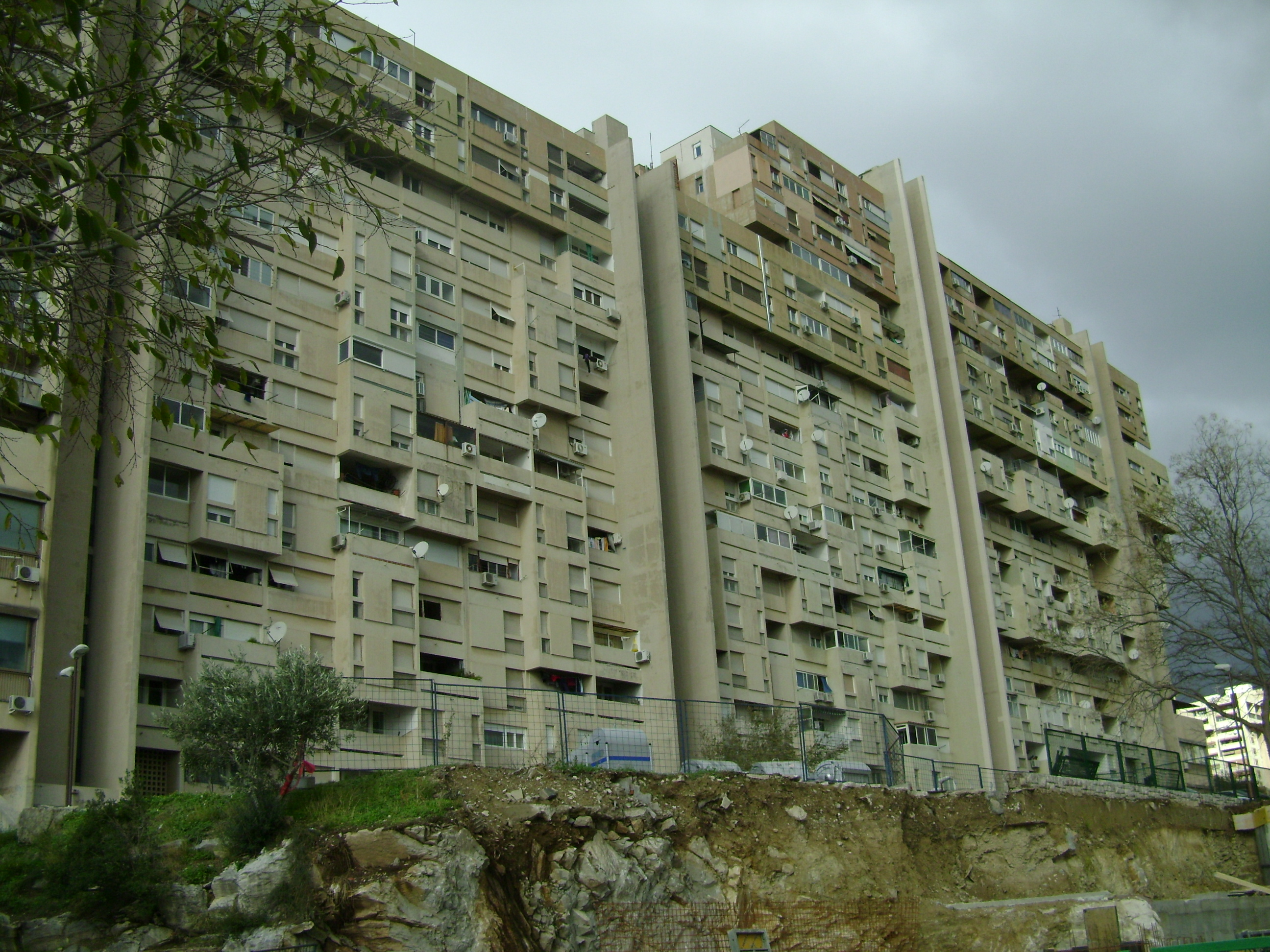 Krstarica building in Split. It was built near military hospital, during comunist regime, and secondary purpose was to be second military hospital in the case of war.